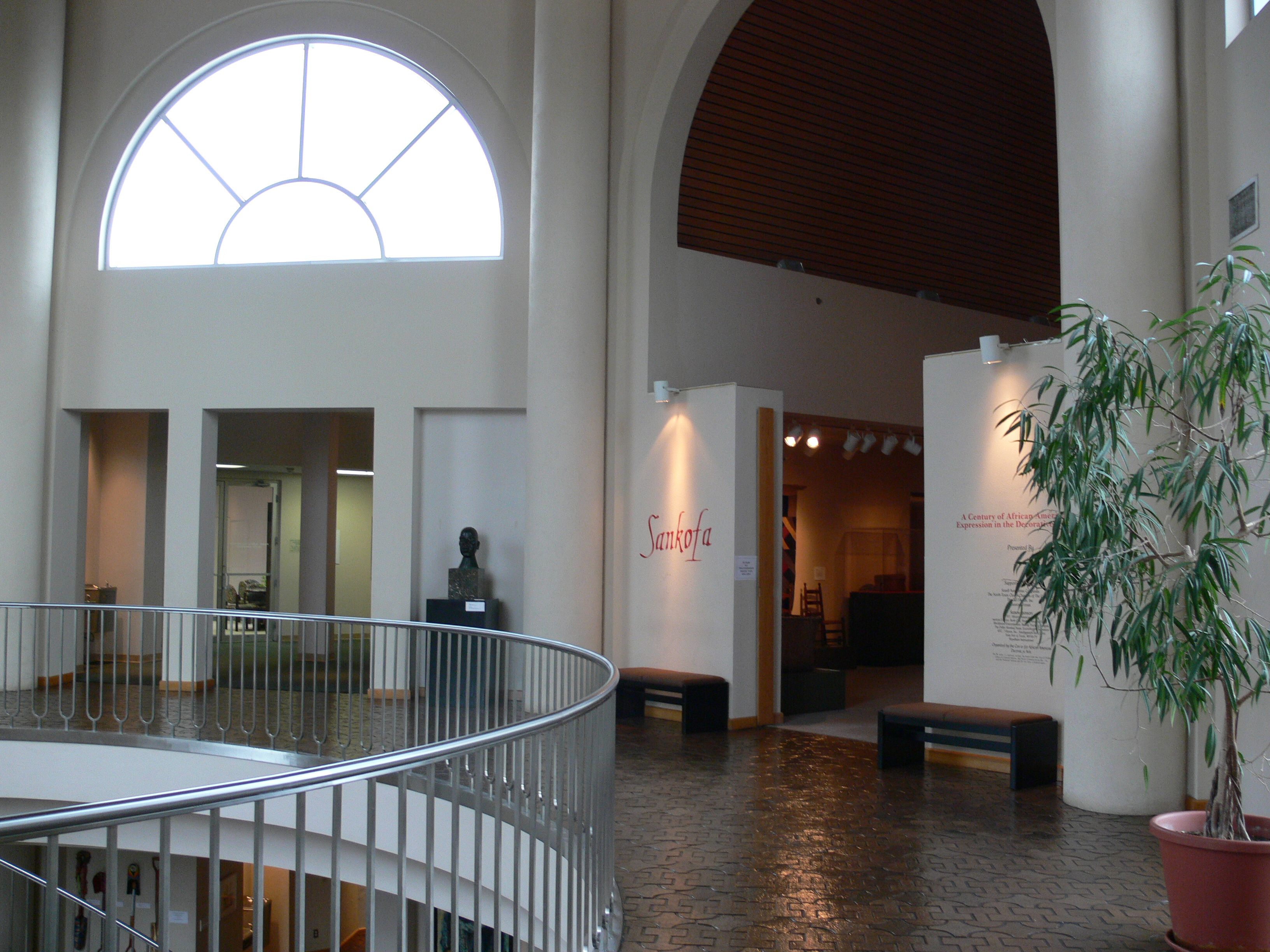 African American Museum, Dallas, Texas